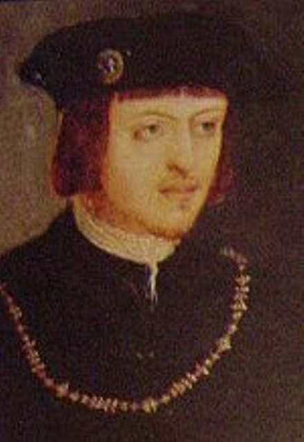 o infante